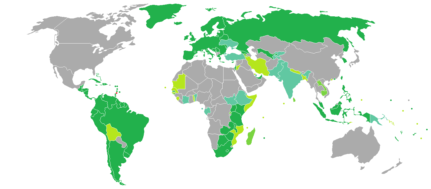 Visa requirements for Saint Vincent and the Grenadines citizens Saint Vincent and the Grenadines Visa free access Visa on arrival eVisa Visa available both on arrival or online Visa required